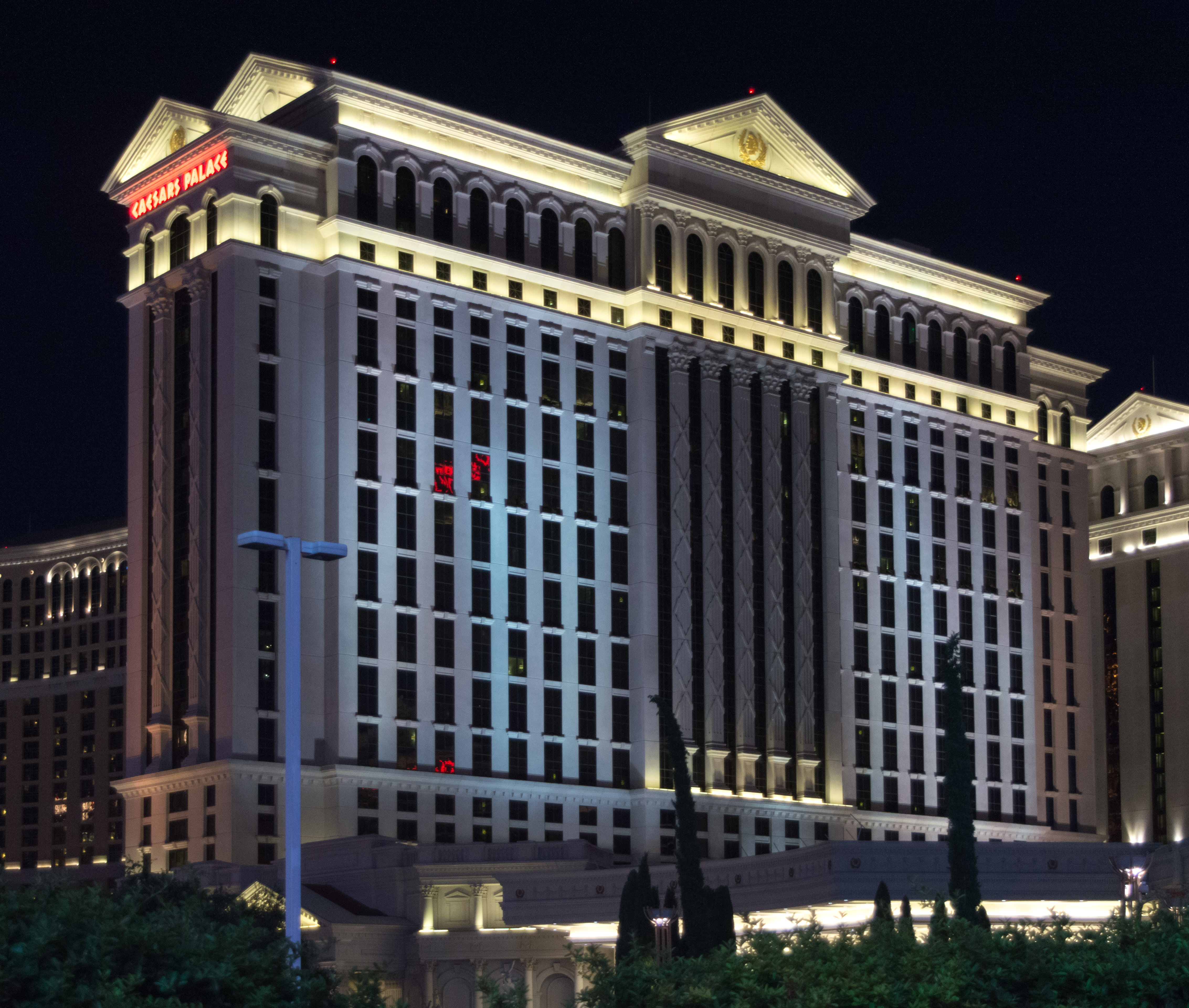 The Laurel Collection Tower at Caesars Palace in Las Vegas in the evening.